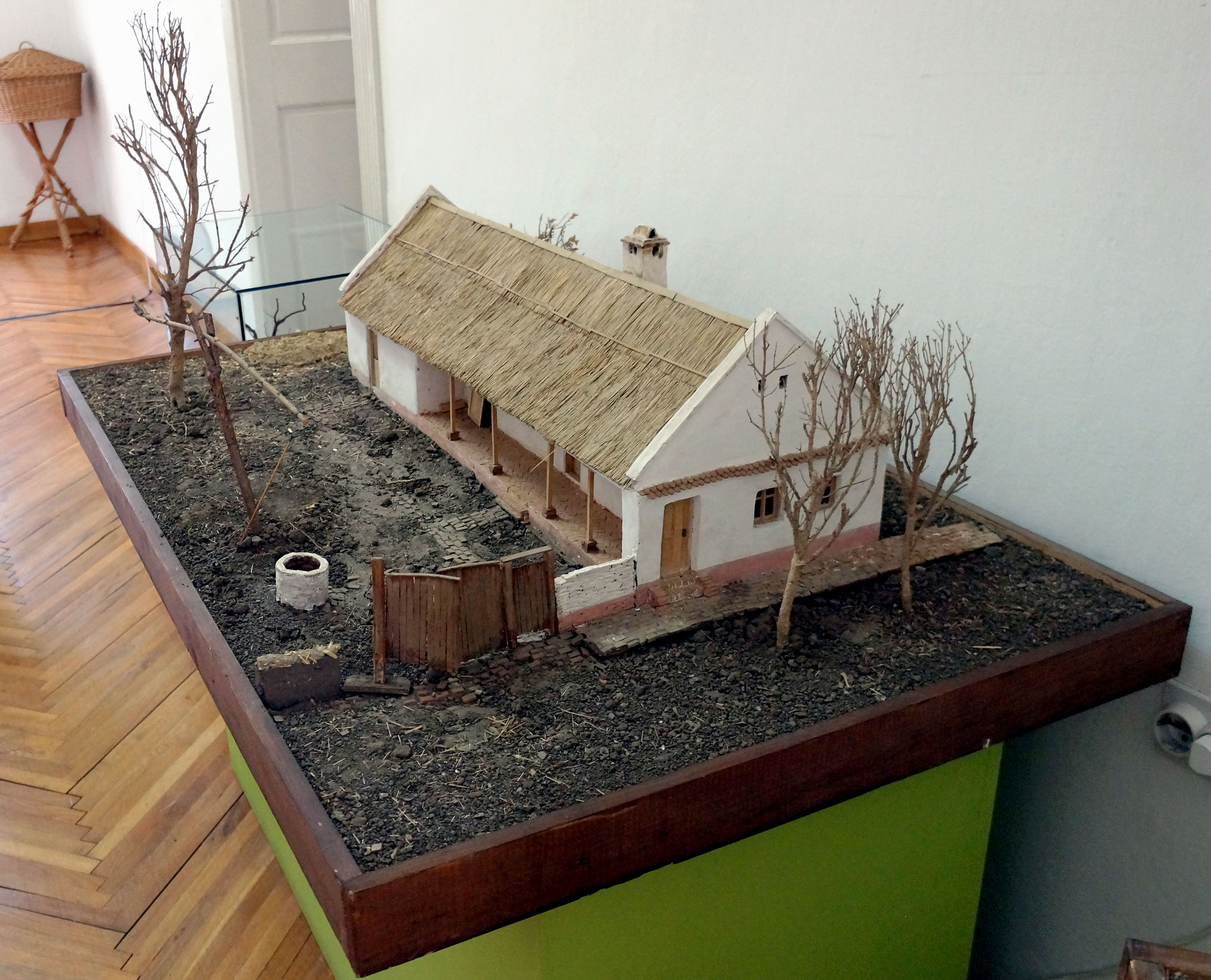 Model of a local traditional mudhut in the Kikinda Museum, Serbia.